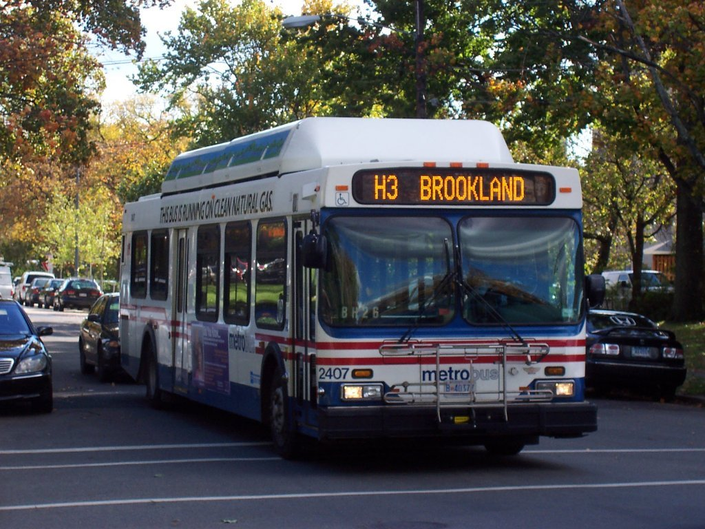 WMATA New Flyer C40LF 2407 in the Tenletyown section of Washington, DC.